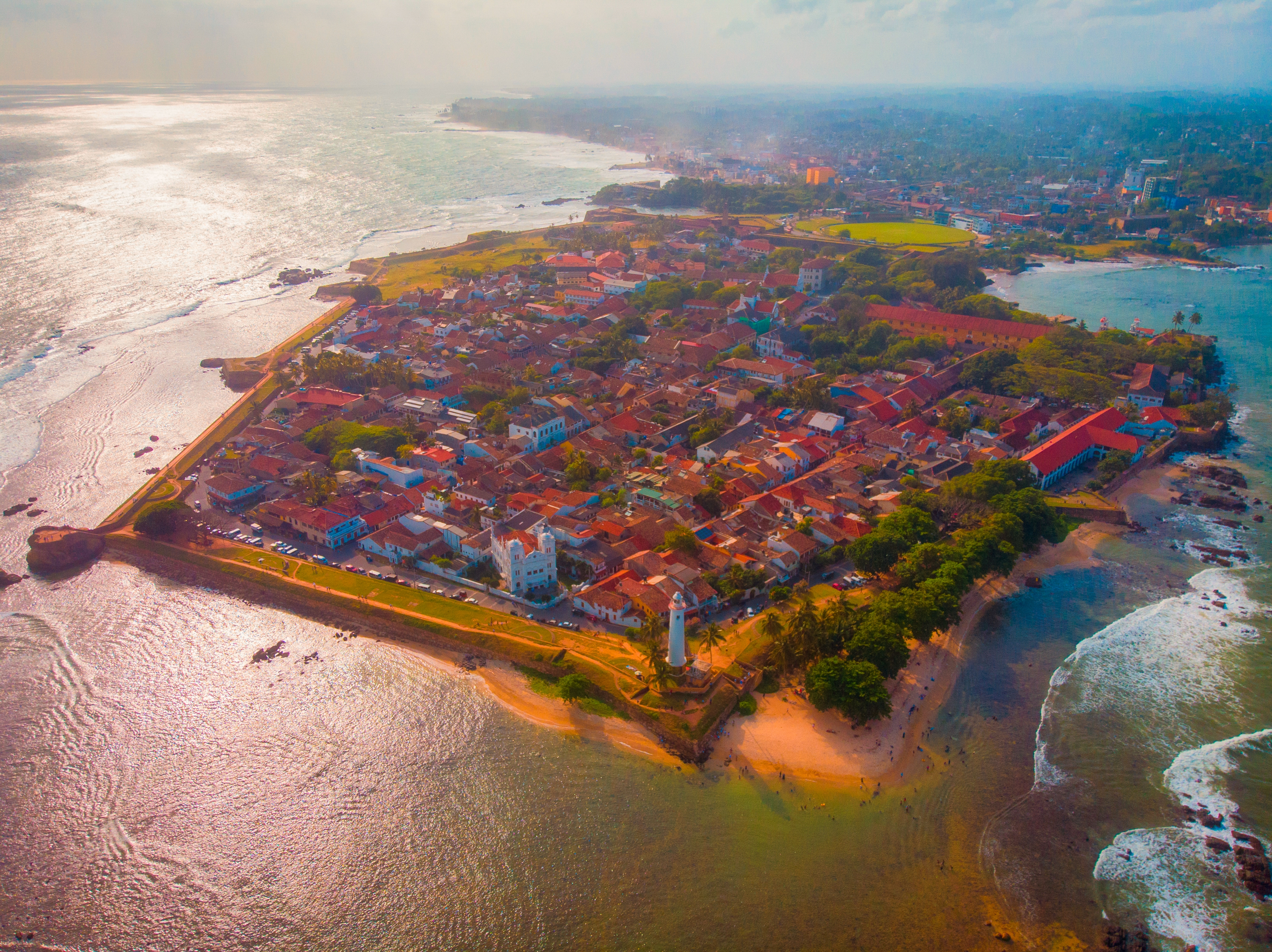 This is the Galle Fort